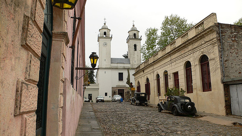 Street in the historic quarter of Colonia del Sacramento, Uruguay